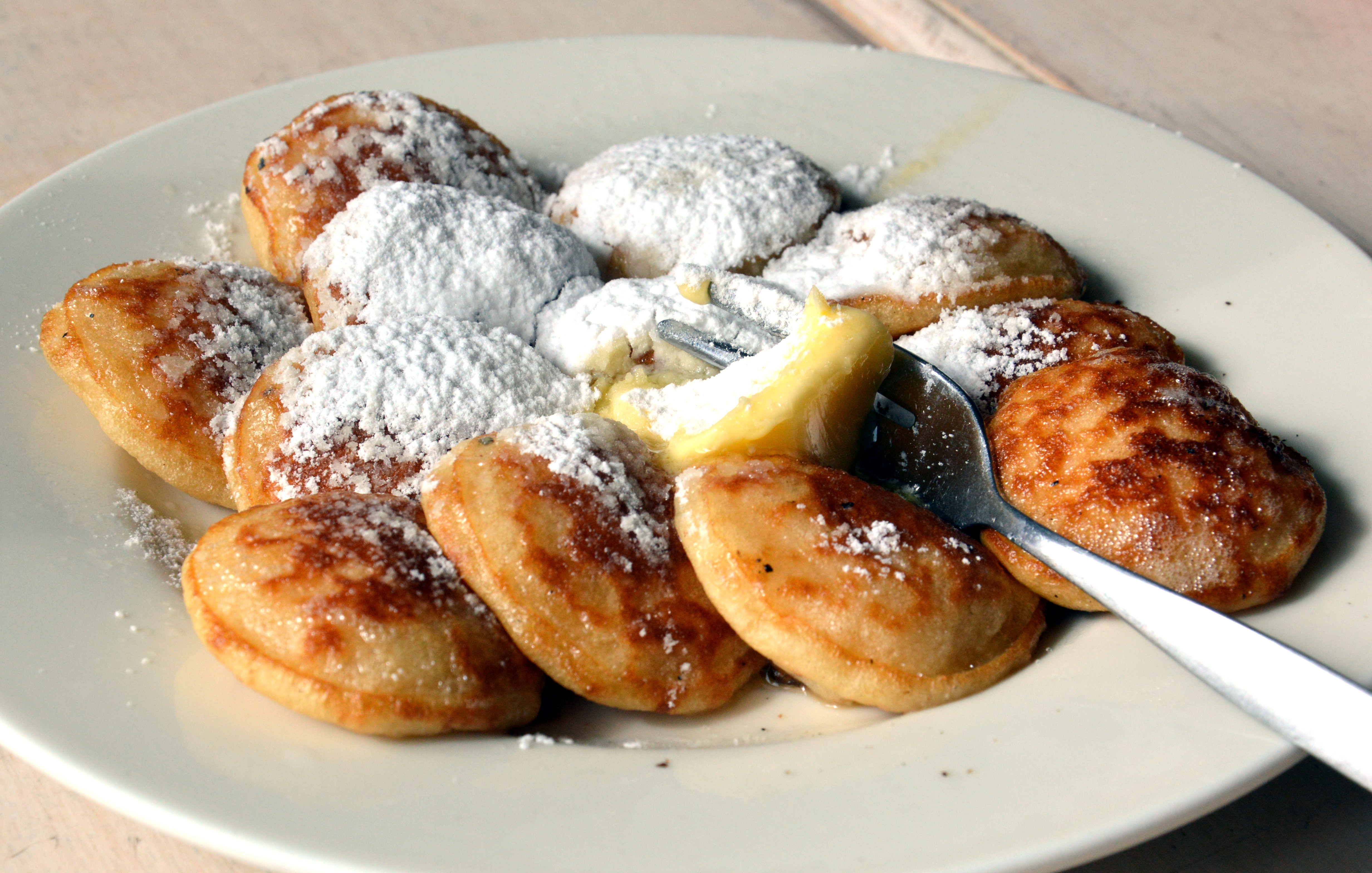 Poffertjes as served at Groot Melkhuis in Vondelpark, Amsterdam, the Netherlands.